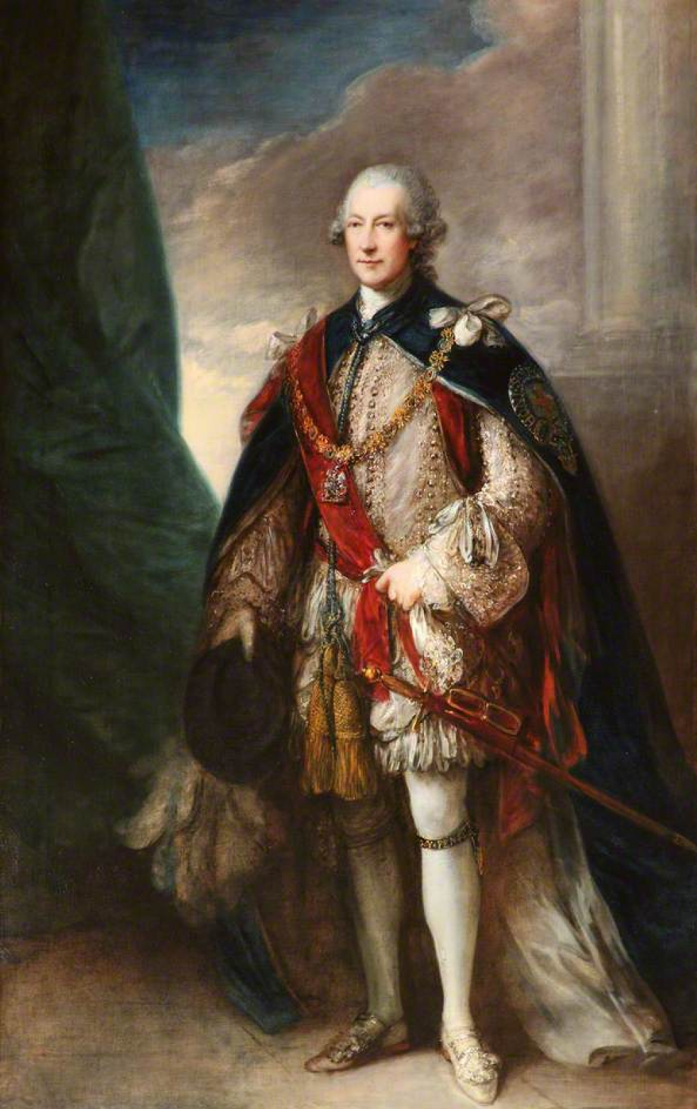 Hugh Percy, 1st Duke of Northumberland